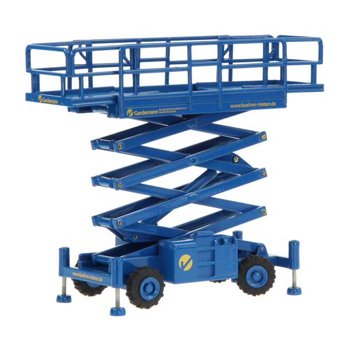 HAULOTTE H15SX NZG Model